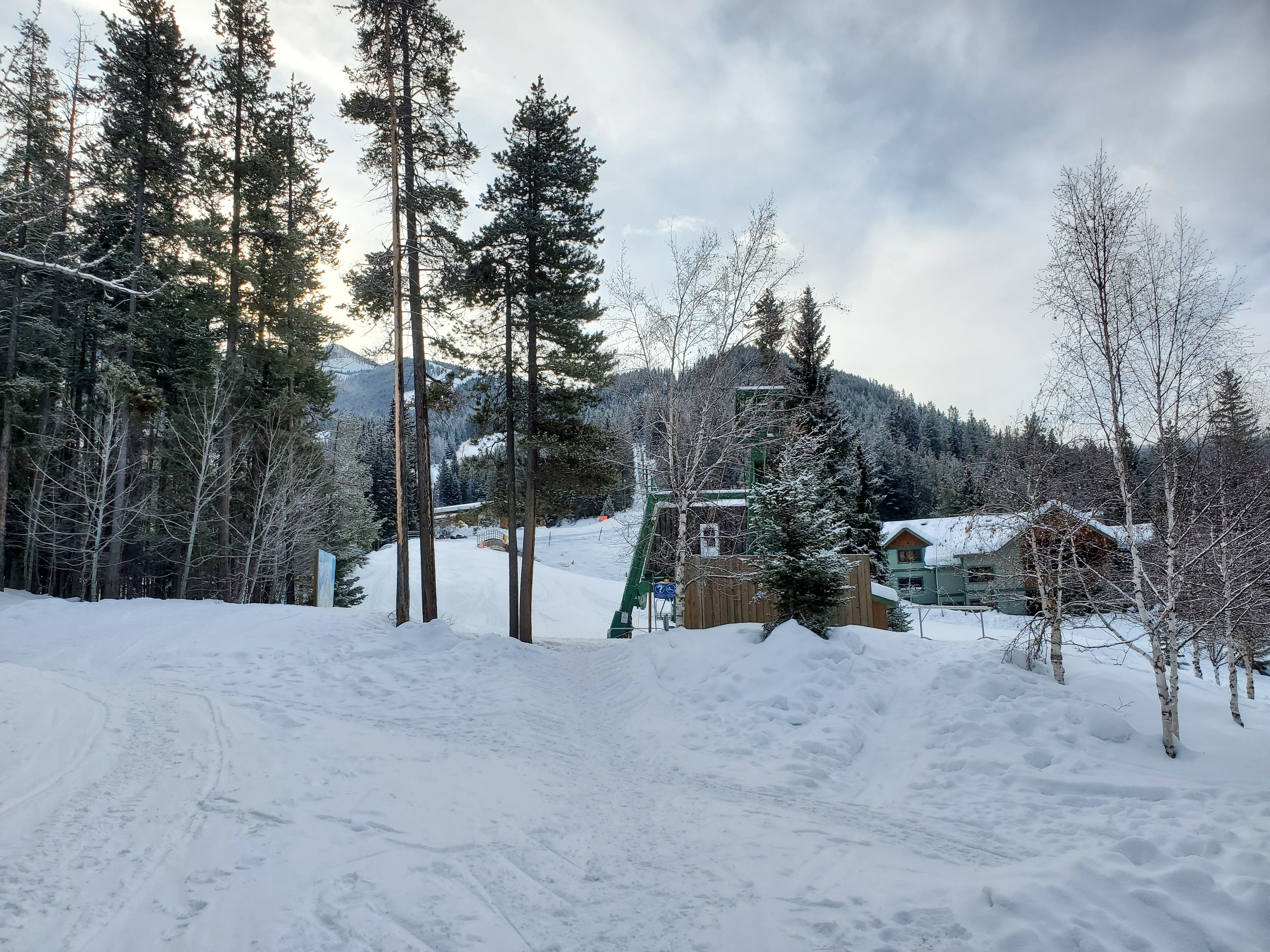 Looking at the Toby Double Chair from the 600 block of Horsethief Lodge